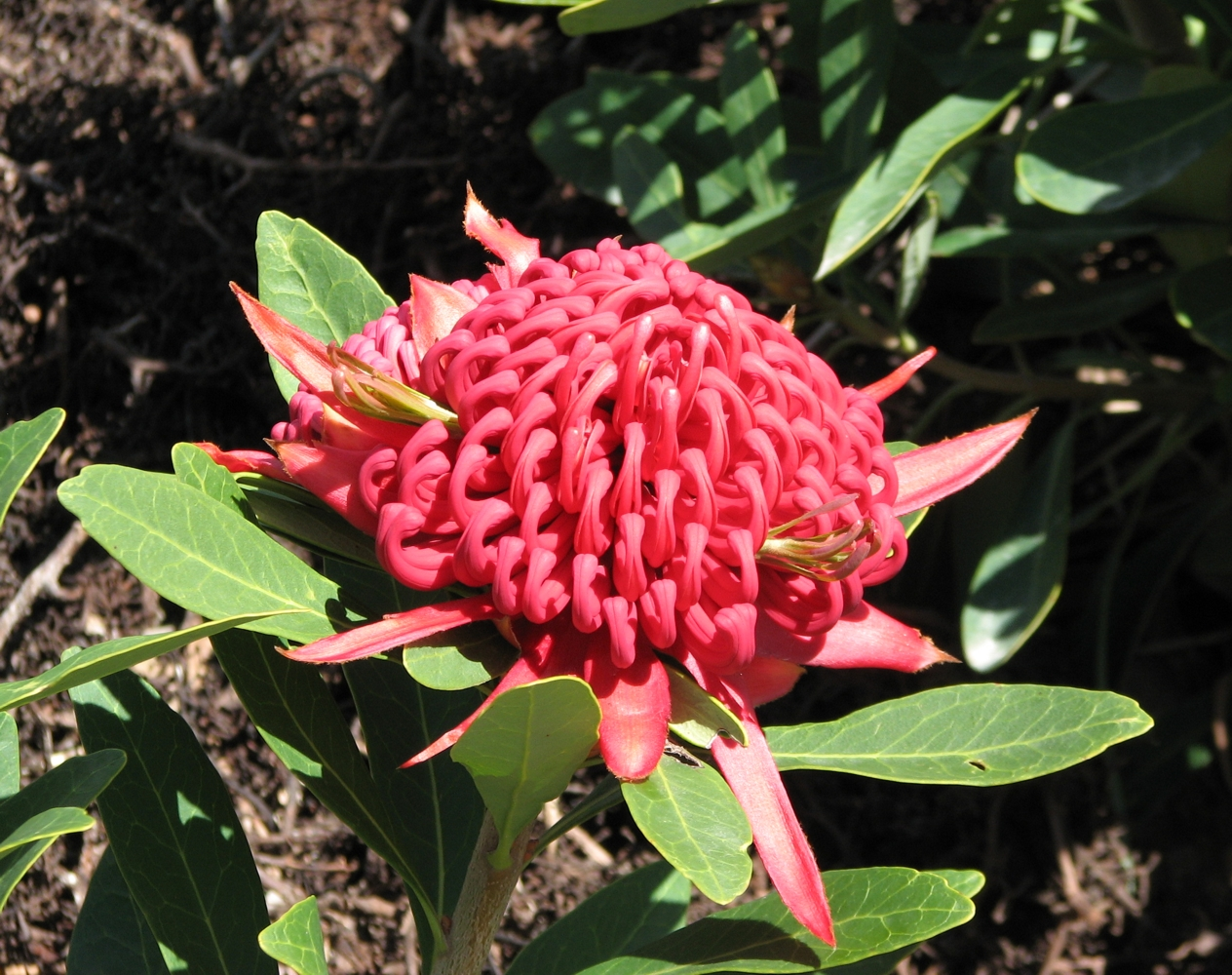 Telopea 'Braidwood Brilliant' (cultivated, labelled), Royal Botanic Gardens, Cranbourne, Victoria, Australia